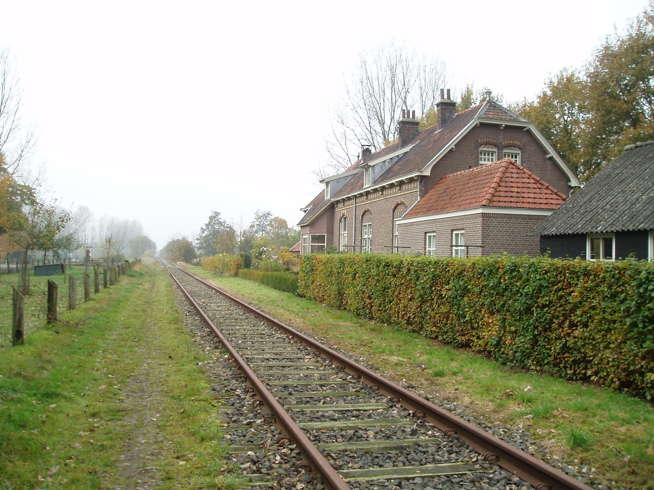 Former Station Liempde, along the disused railway line Boxtel - Wesel, known as 'het Duits Lijntje'.